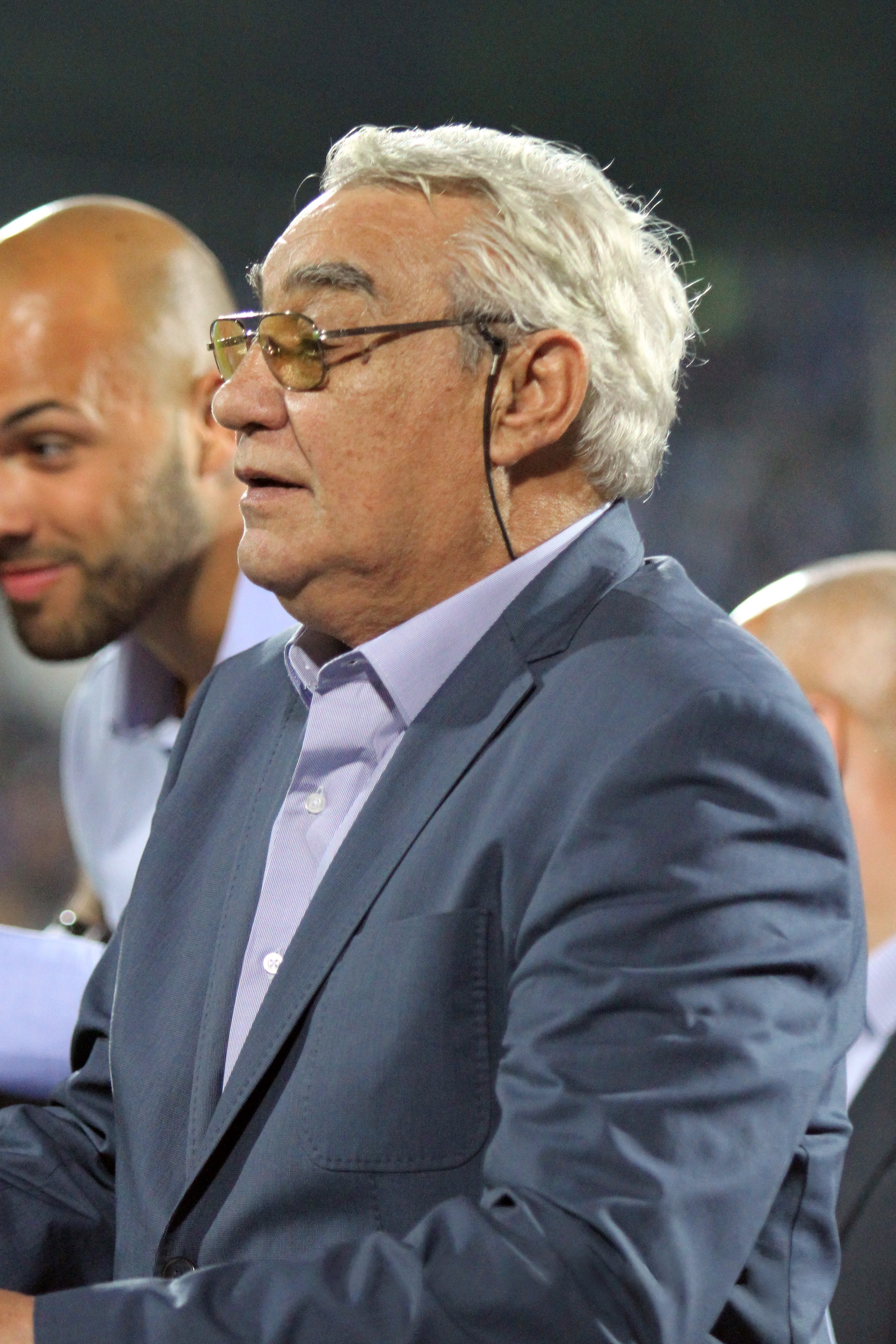 Biser Mihaylov - former bulgarian football player, goalkeeper.